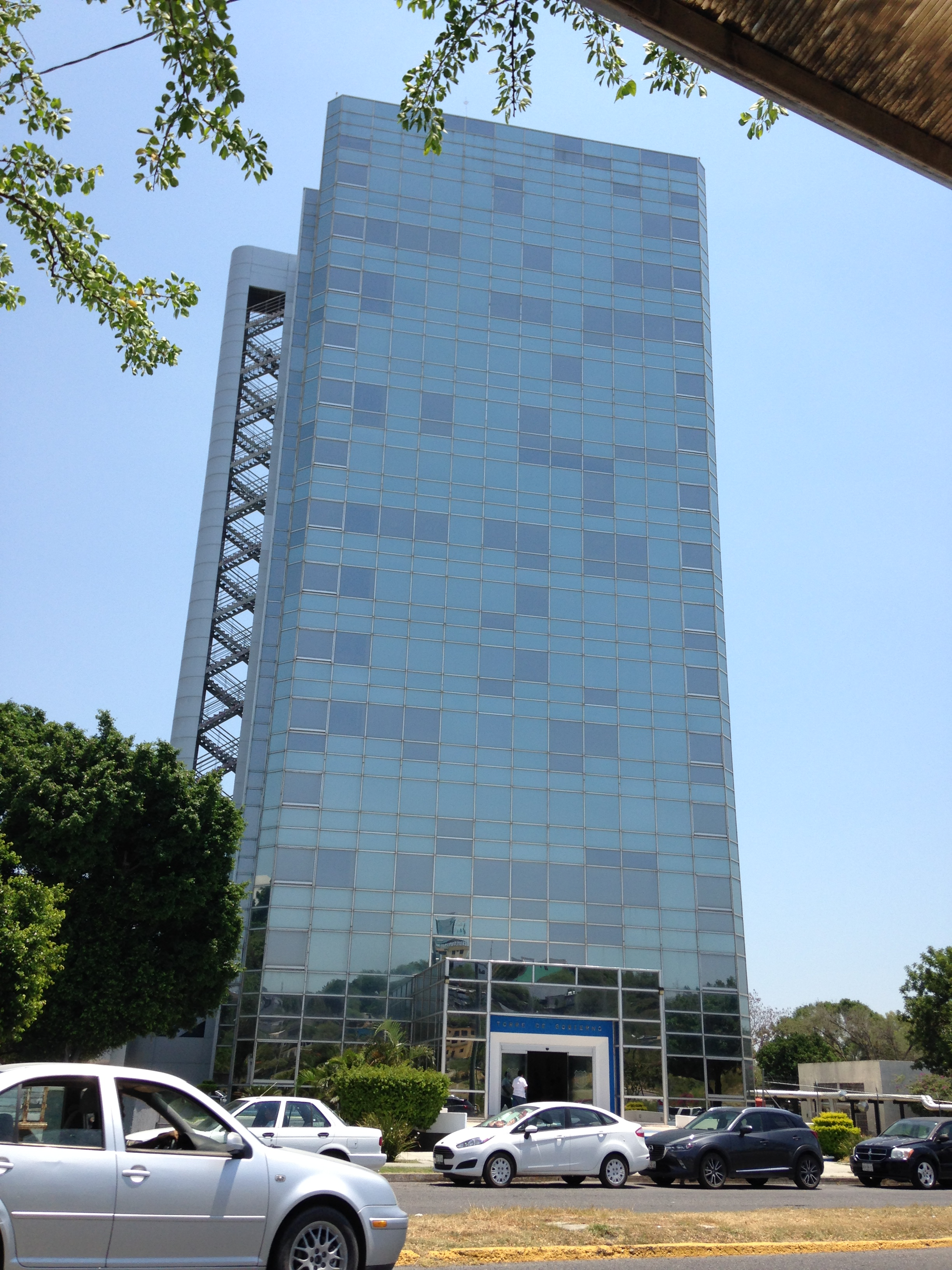 Front view ofthe Cristal Tower, former goverment offices and now main offices of the Secretary of Education in Victoria City, state of Tamaulipas, Mexico